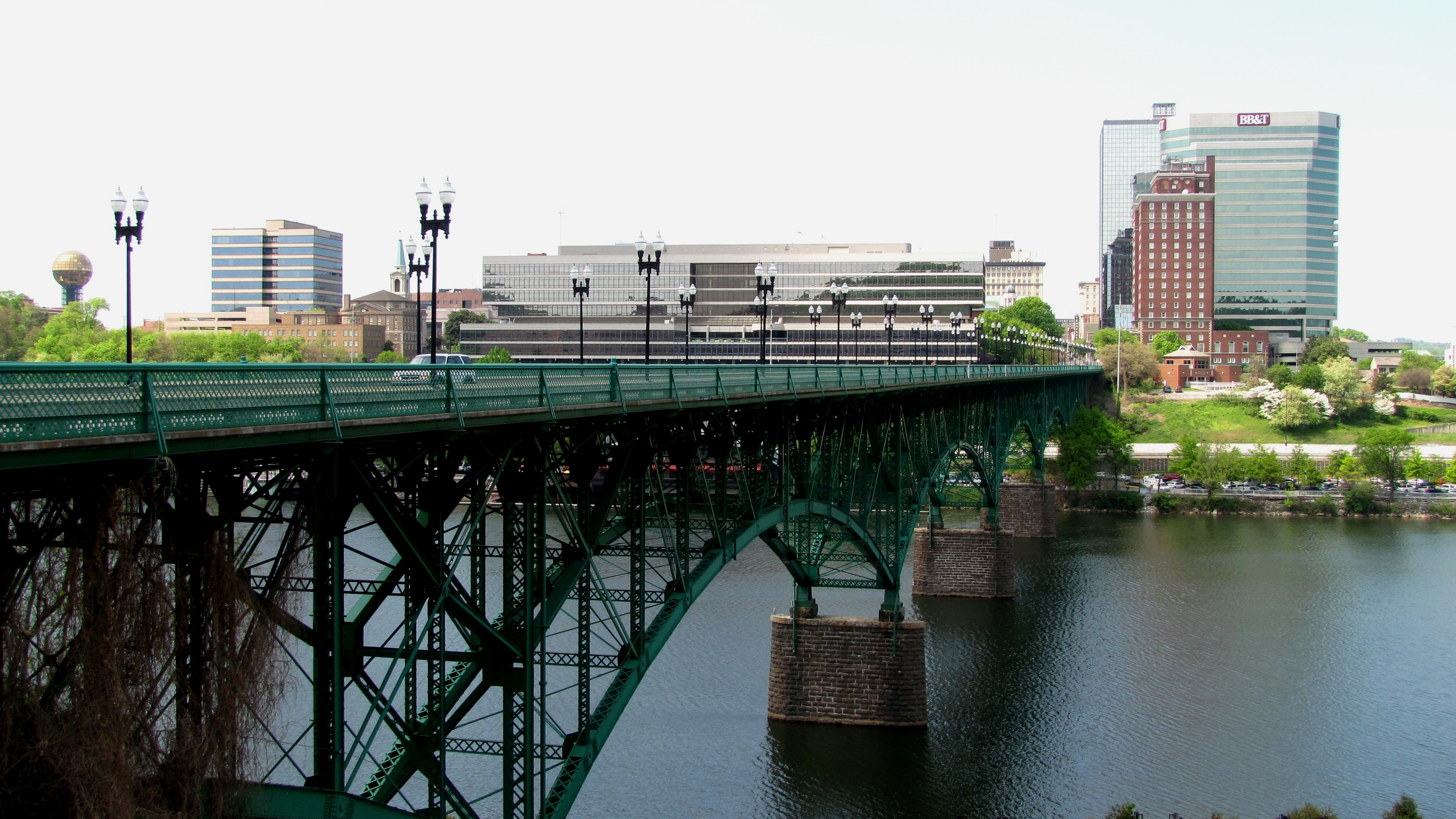 The Gay Street Bridge spanning the Tennessee River in Knoxville, Tennessee, USA, with the city's skyline in the background. The Sunsphere is visible on the far left, with the Bank of America building rising to its right. The steeple of the First Baptist Church is visible just right of the Bank of America building. The large, horizontal building at the center is the City-County Building. The three tall buildings to the right of the bridge are the Andrew Johnson Building (the brownish brick building in the foreground), followed by the Riverview Tower (BB&T) and Plaza Tower (First Tennessee) behind it. The Blount Mansion visitor's center is visible at the base of the Andrew Johnson Building, although the mansion is out of view. Click for 1919 view. Click for late-1860s view.